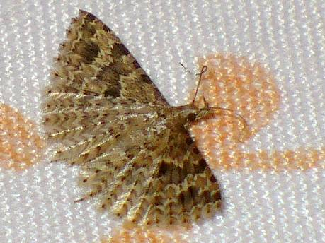 own picture @ home